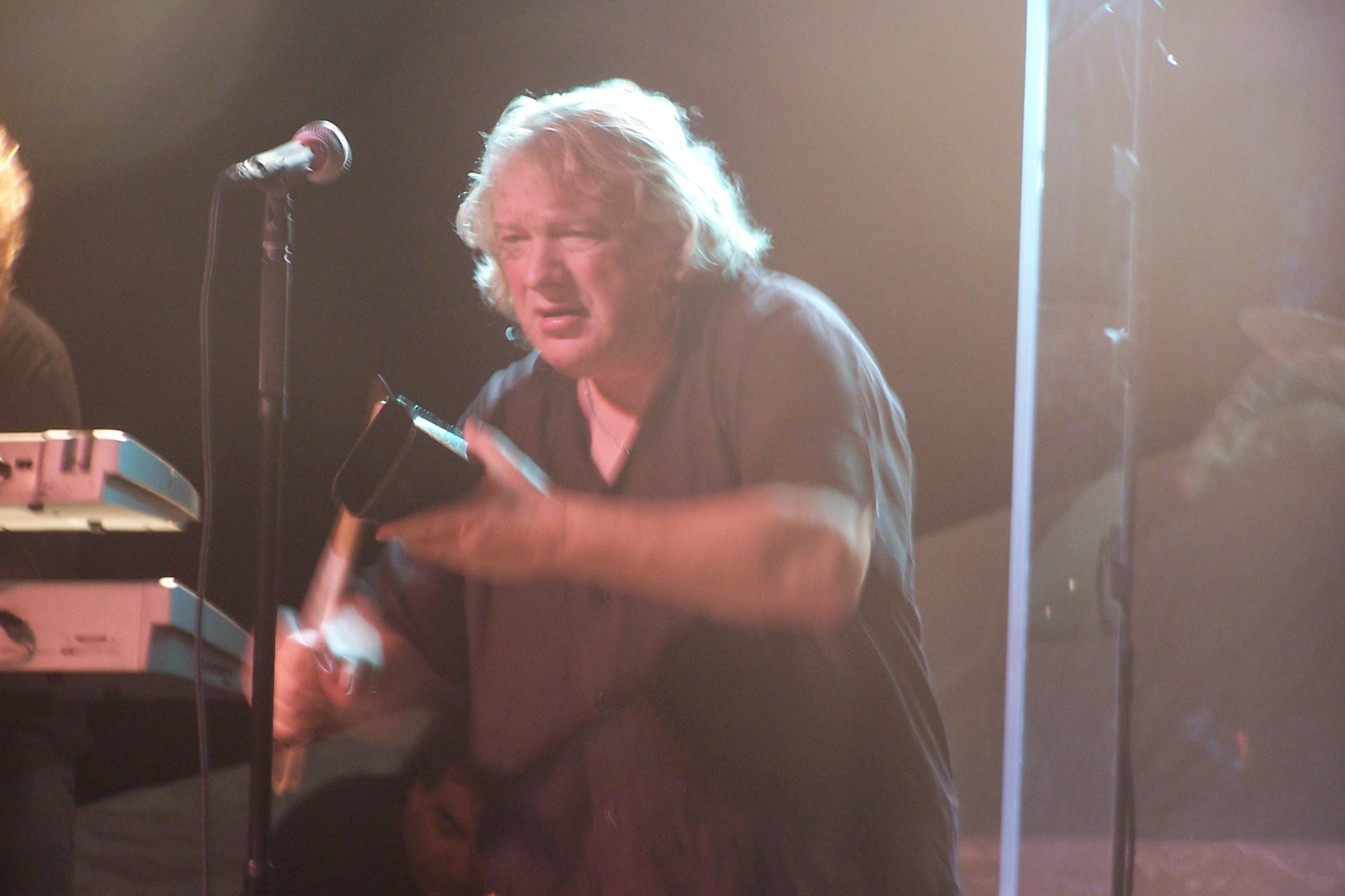 Lou Gramm today.